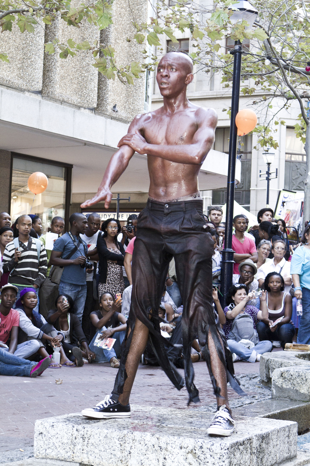 Infecting the City 2012. Africa Centre